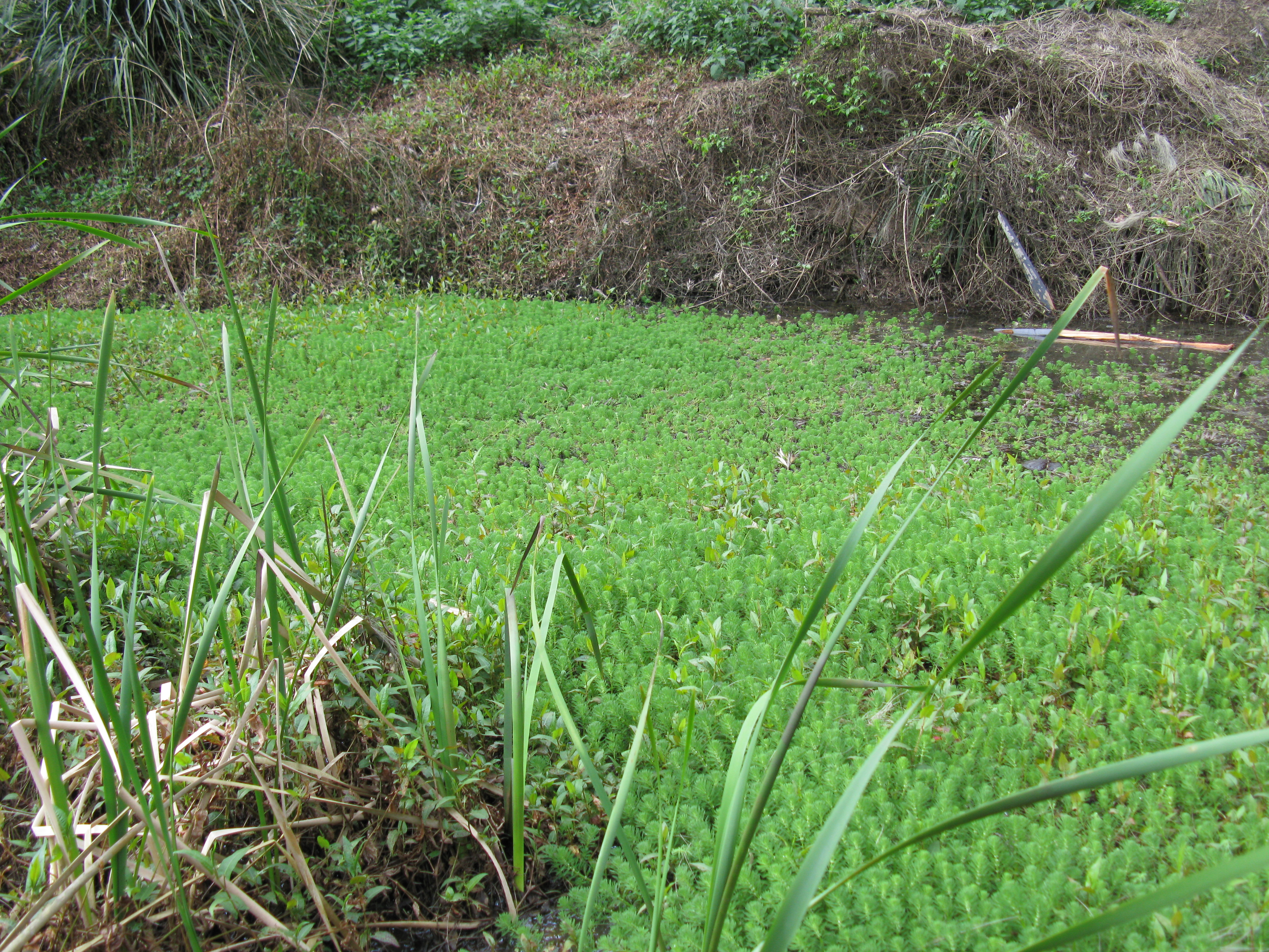 Introduced, warm-season, perennial aquatic or semi-aquatic herb that roots freely from the lower nodes. Stems are to 5 m long, often protruding about 30 cm above the water. Emergent leaves occur in whorls of 4-6 and are hairless, grey-green and feather-like (10-18 pairs of leaflets). Only female plants are present in Australia; flowers are solitary and tiny (to 0.5 mm long) in the leaf axils. Flowering is during the warmer months. A native of central South America, it is an escapee from aquariums and water-gardens, and now an environmental weed. Found in shallow, still to slow-flowing, dams, pools and creeks, especially if nutrient enriched. Spread only by stem fragments via humans and water as fruit are not formed in Australia. Can form dense stands that choke waterways and exclude native plants and animals. Control by manual removal over the warmer months; dry out in the sun and don’t dispose of near creeks or ditches. There are no registered herbicides for control.